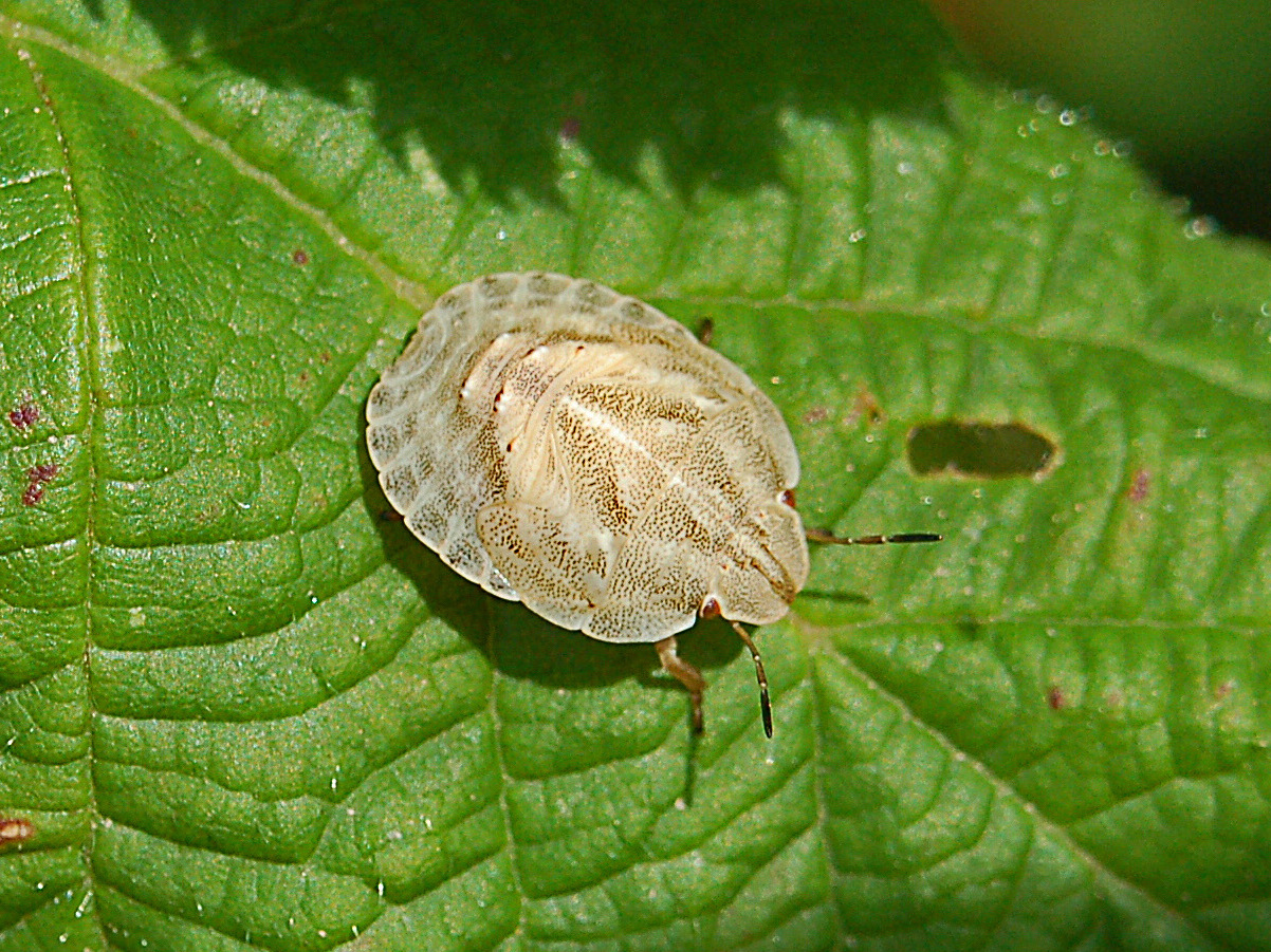 Eurygaster maura, nymph. Vi superiore, Genova, Italy